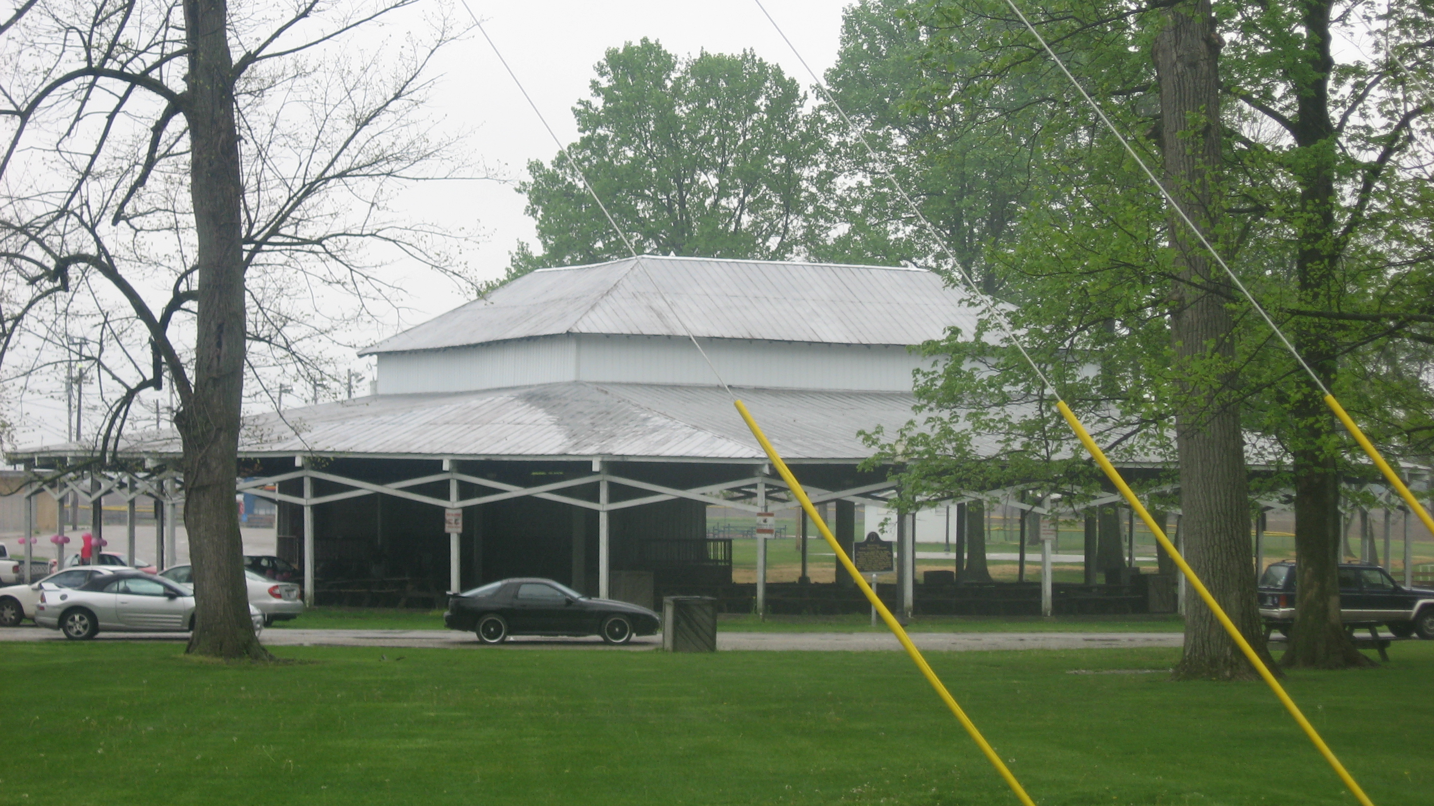 Distant view of the northern side of the Rockville Chautauqua Pavilion, located south of Mecca Road and west of College Street in Rockville, Indiana, United States. Built in 1913, it is listed on the National Register of Historic Places.